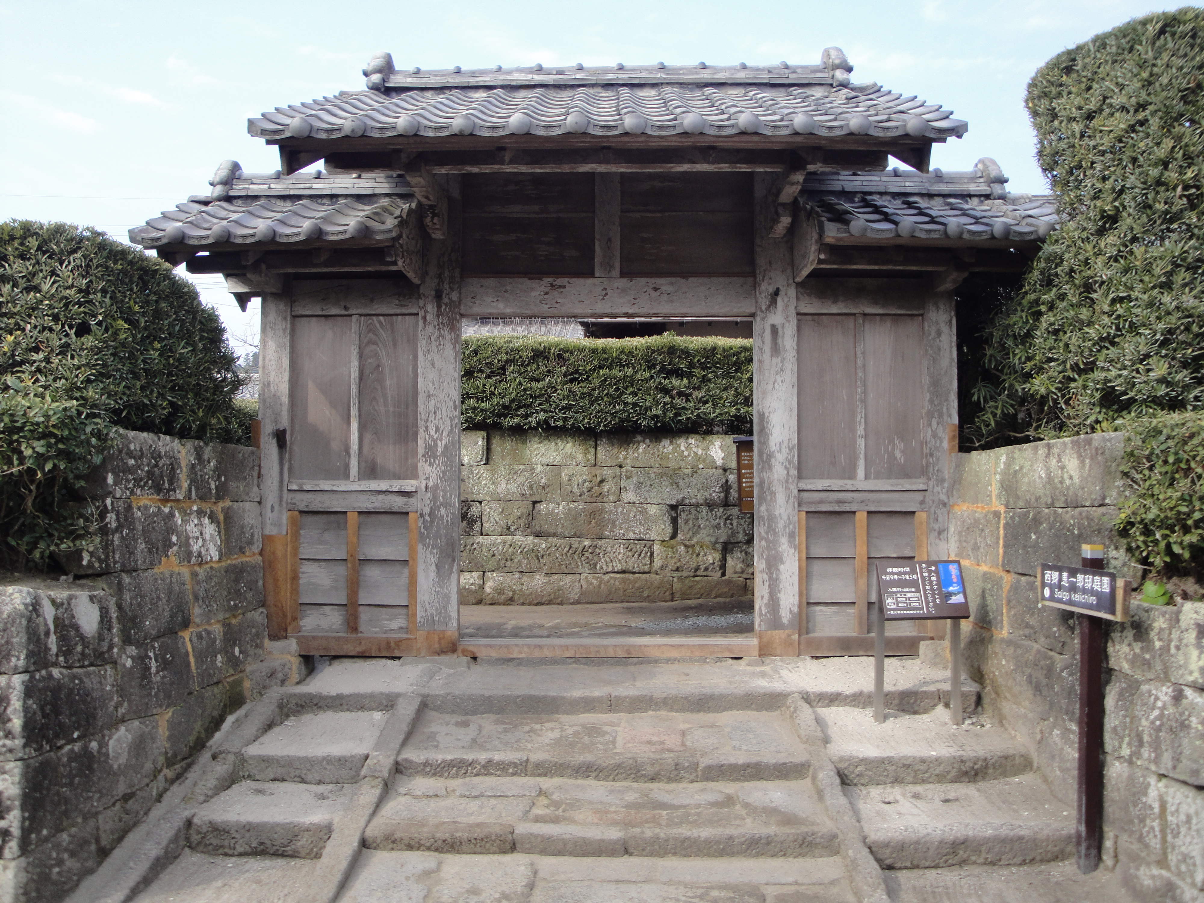 Chiran-Bikeyashiki in Minamikyūshū City, Kagoshima, Japan.